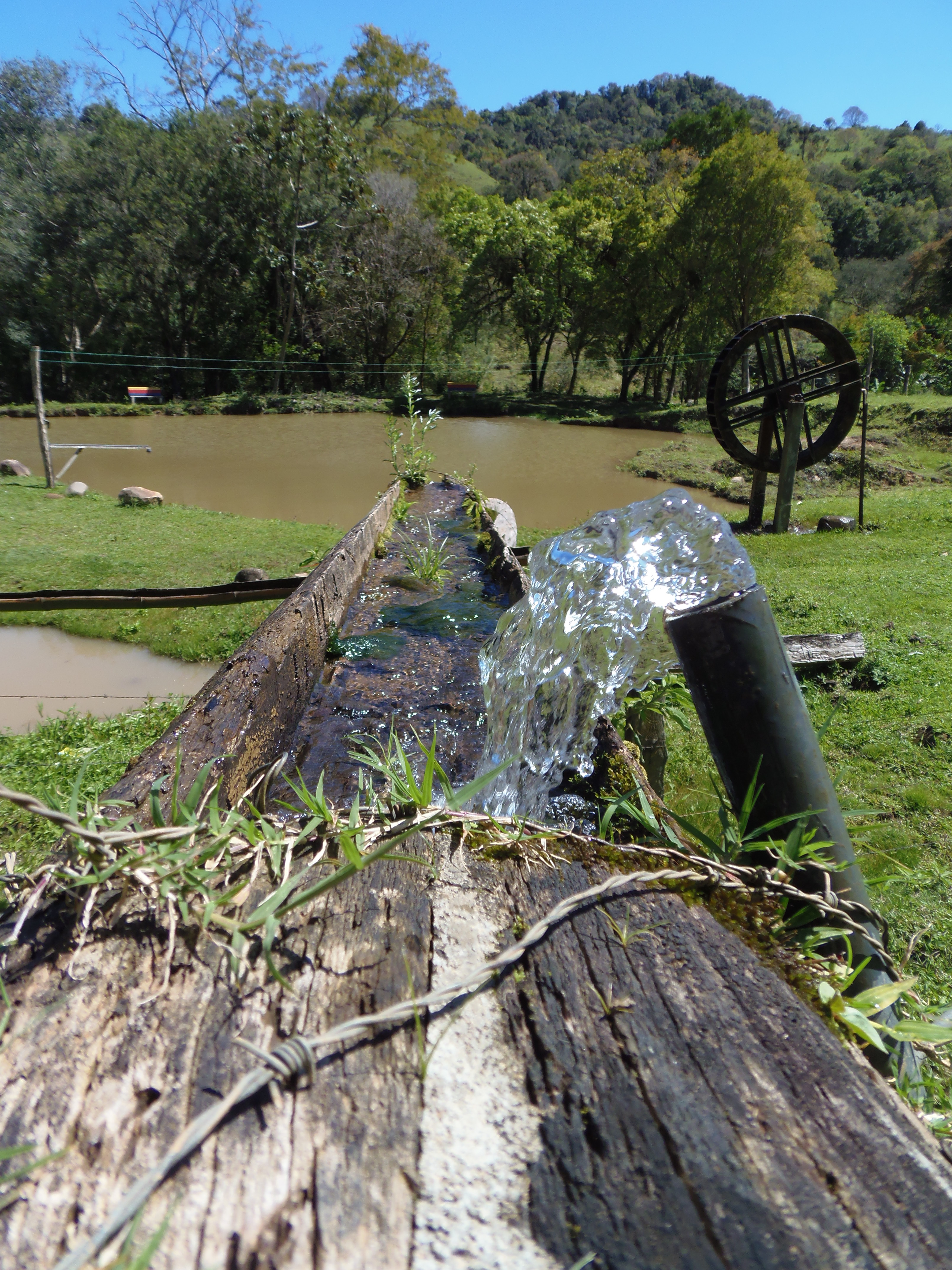 Castro - State of Paraná, Brazil